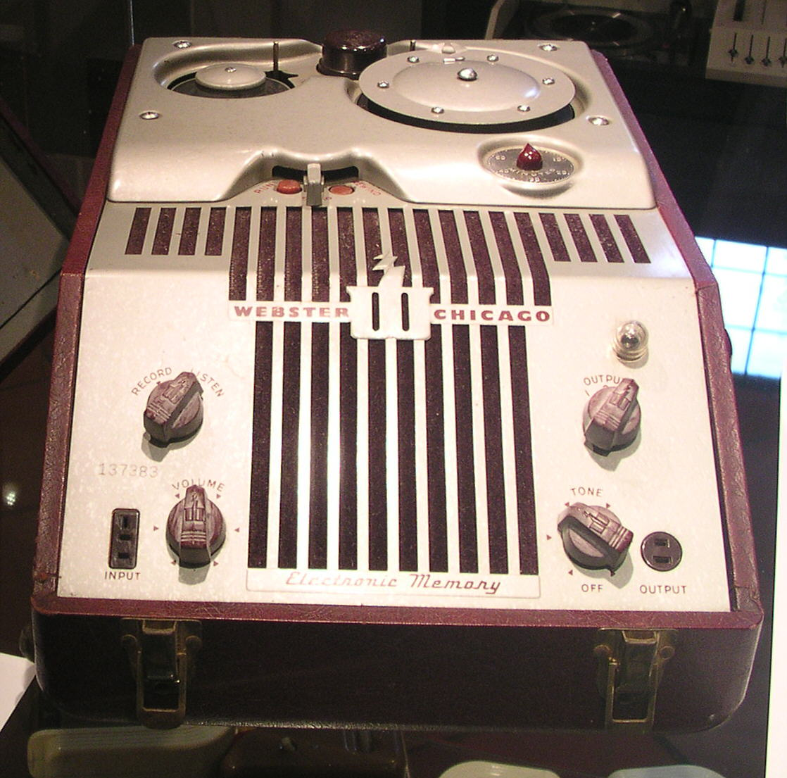 Webster-Chicago wire recorder